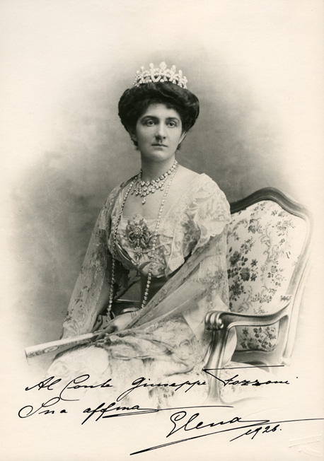 Ugo Bettini (1843-1920s), Elena of Montenegro, Queen of Italy.